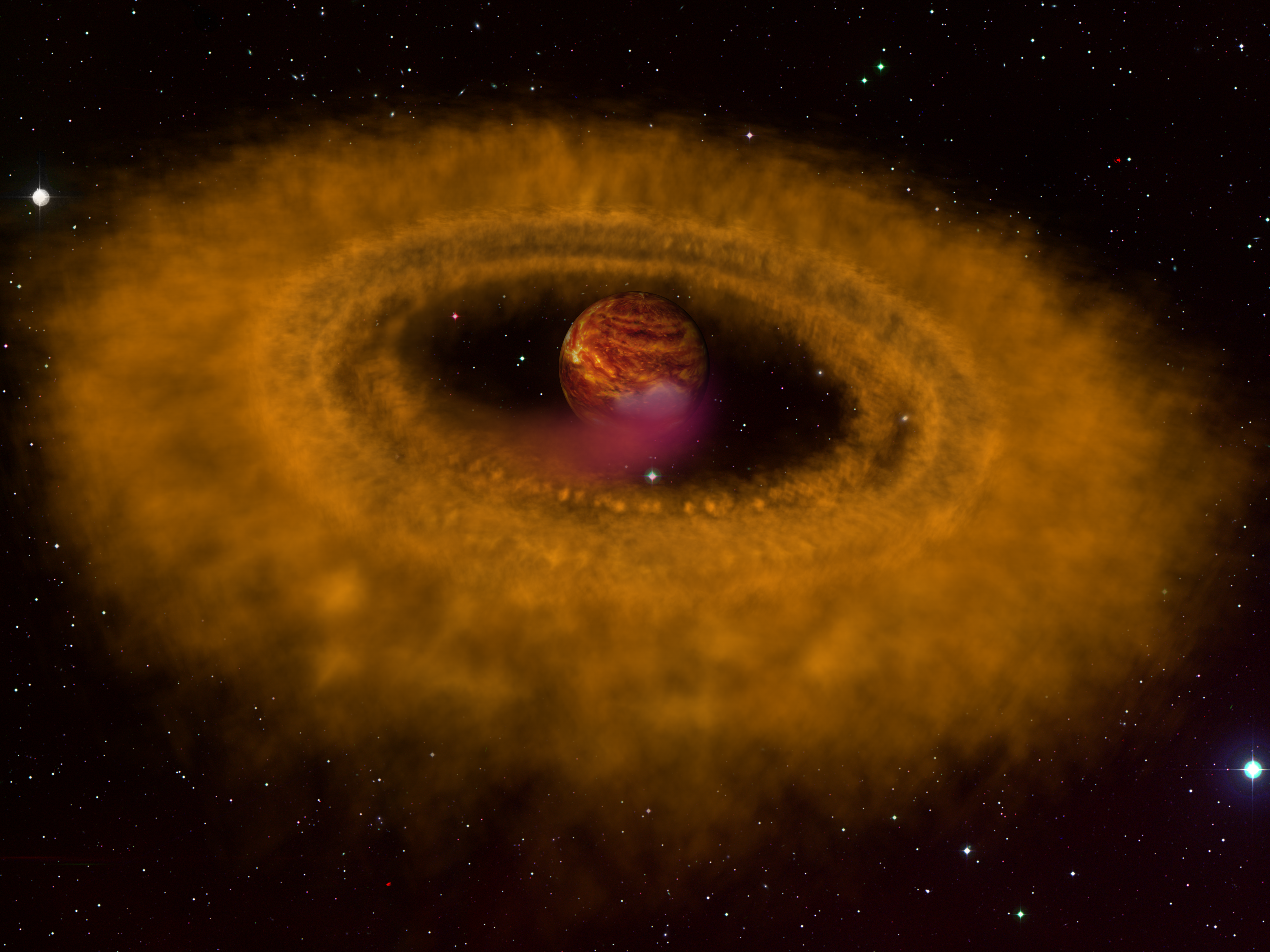 Artist's impression of the solitary substellar object OTS 44, which has a mass of only about 12 Jupiter masses. Detailed studies by a team led by Viki Joergens showed that this young object has a substantial disk of at least 10 Earth masses and is actively accreting matter from this disk at significant rates.